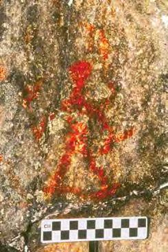 A human figure on the pictograph panel.